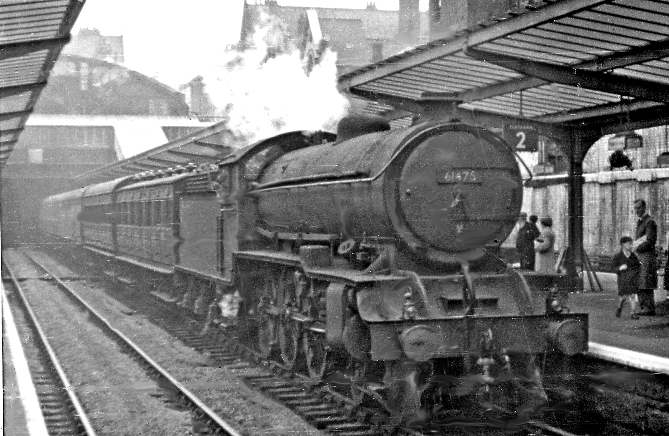 Sunderland station, with Newcastle - Middlesbrough express. View westward, towards Newcastle: ex-NER 'Coast' main line: Newcastle - Sunderland - West Hartlepool - Stockton and the South. The train is headed by a Gresley B16/2 rebuild (1/40) of a Raven B16/1 No.846 built 3/20, renumered in 1946 No. 1406, then 61475 in 1949 by BR, withdrawn 4/63. The station was badly damaged by enemy action in 1943 and was already re-roofed in 1953, rebuilt in 1965.